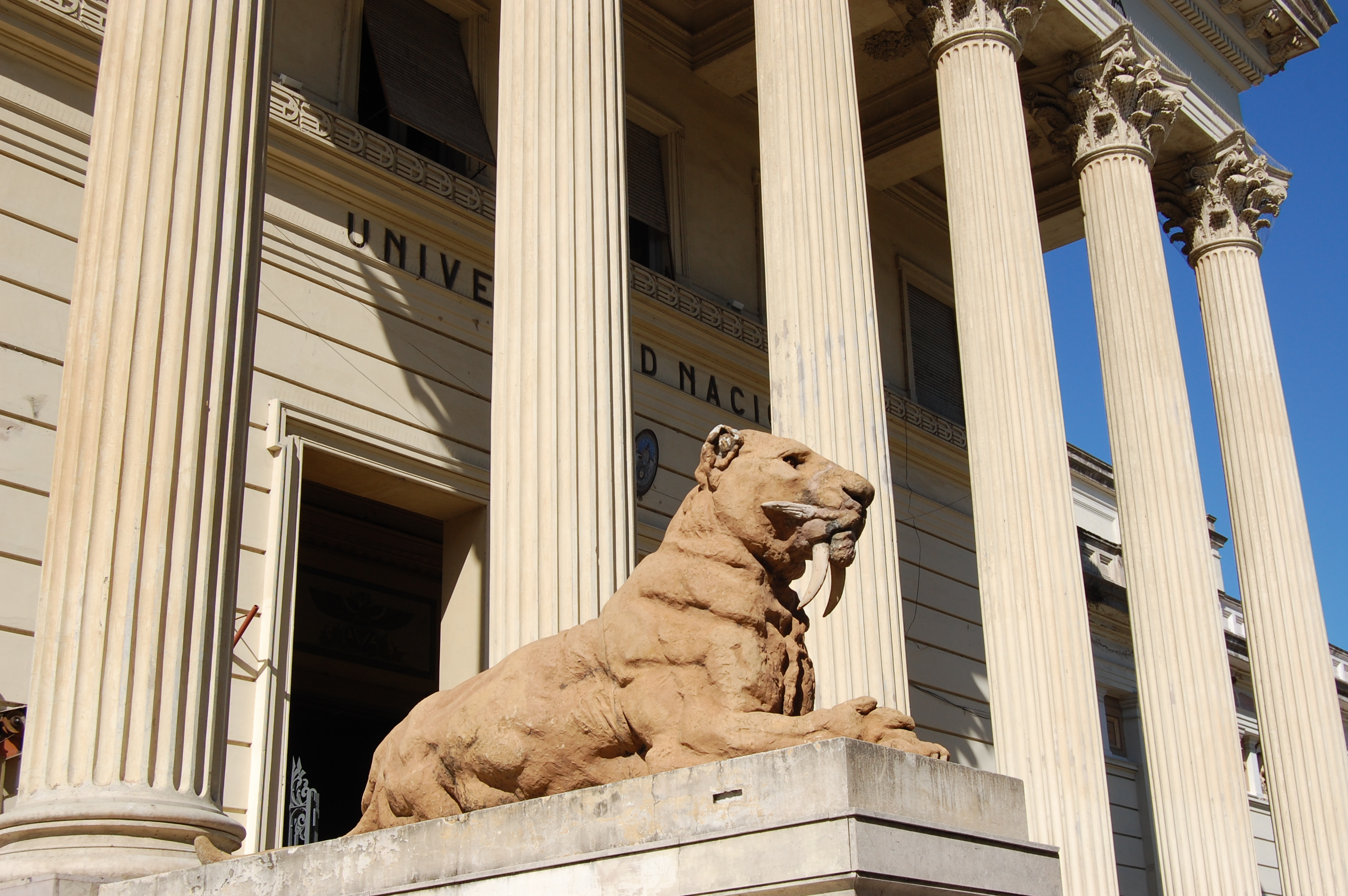 A Smilodon sculpture in front of the La Plata Museum, in Argentina.